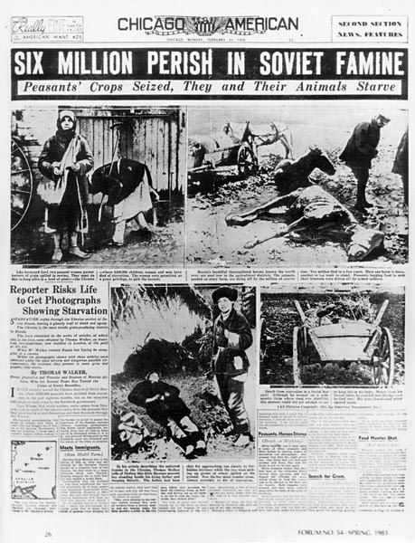 Chicago's American front page depicting Holodomor's starvation to death of six million Ukrainians